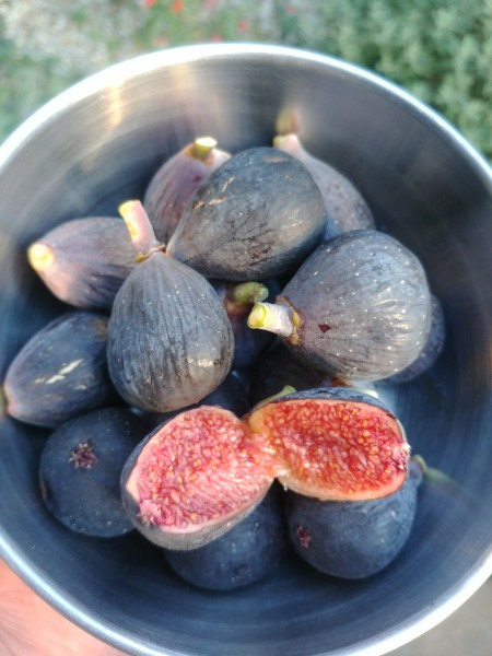 Main crop figs of the Ficus carica variety Negronne in Vienna.